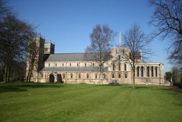 Worksop Priory